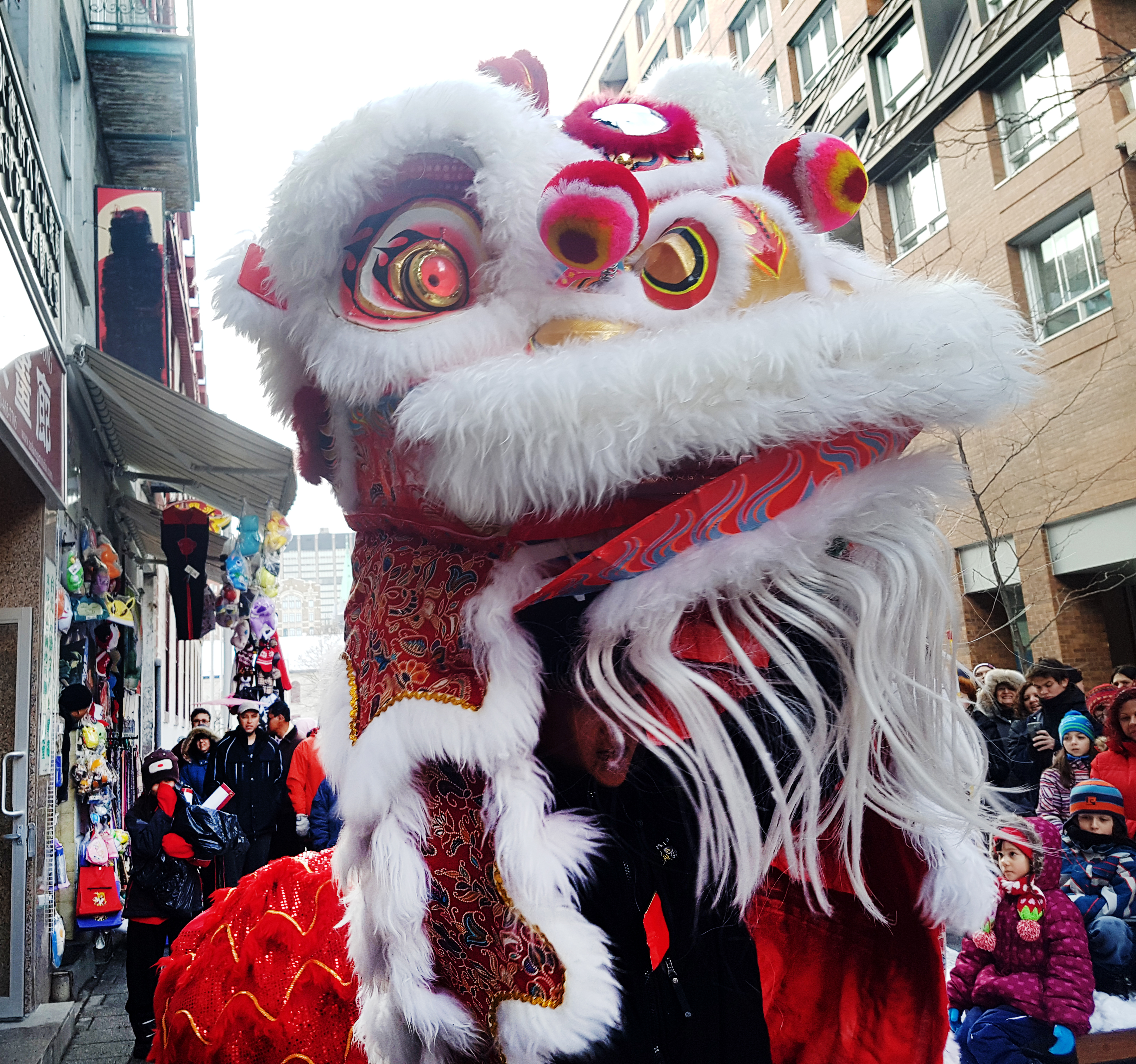 Lion dance for the 2017 Chinese New Year of the Rooster in Montreal's Chinatown, Sunday 29 January 2017.